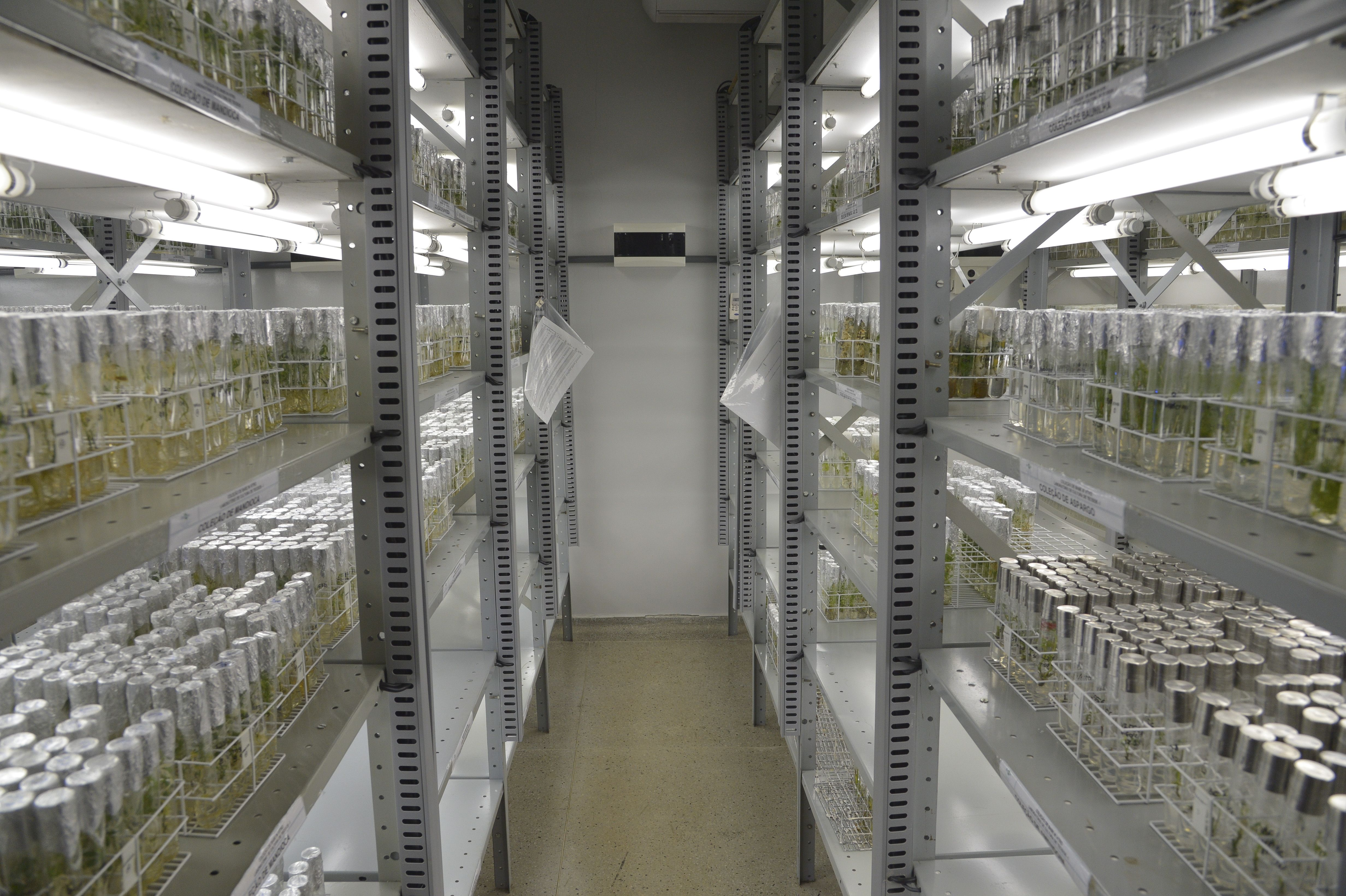 Germoplasm bank in Brazil. Photo by Wilson Dias/Agência Brasil published under a CCBY3.0 license